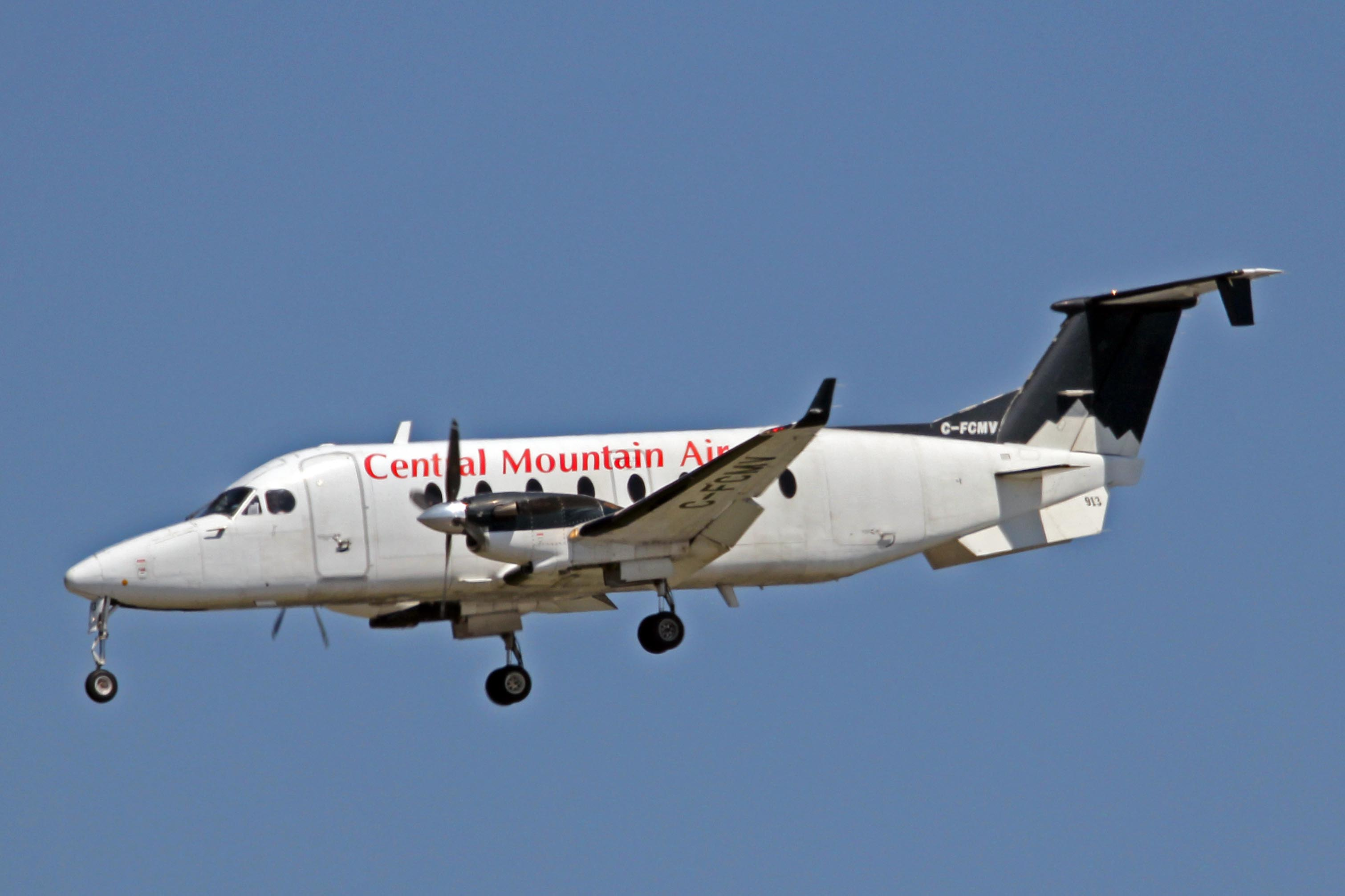 C-FCMV B.1900D Central Mountain Air